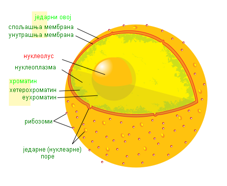 a comprensive diagram of a human cell nucleous, names in serbian